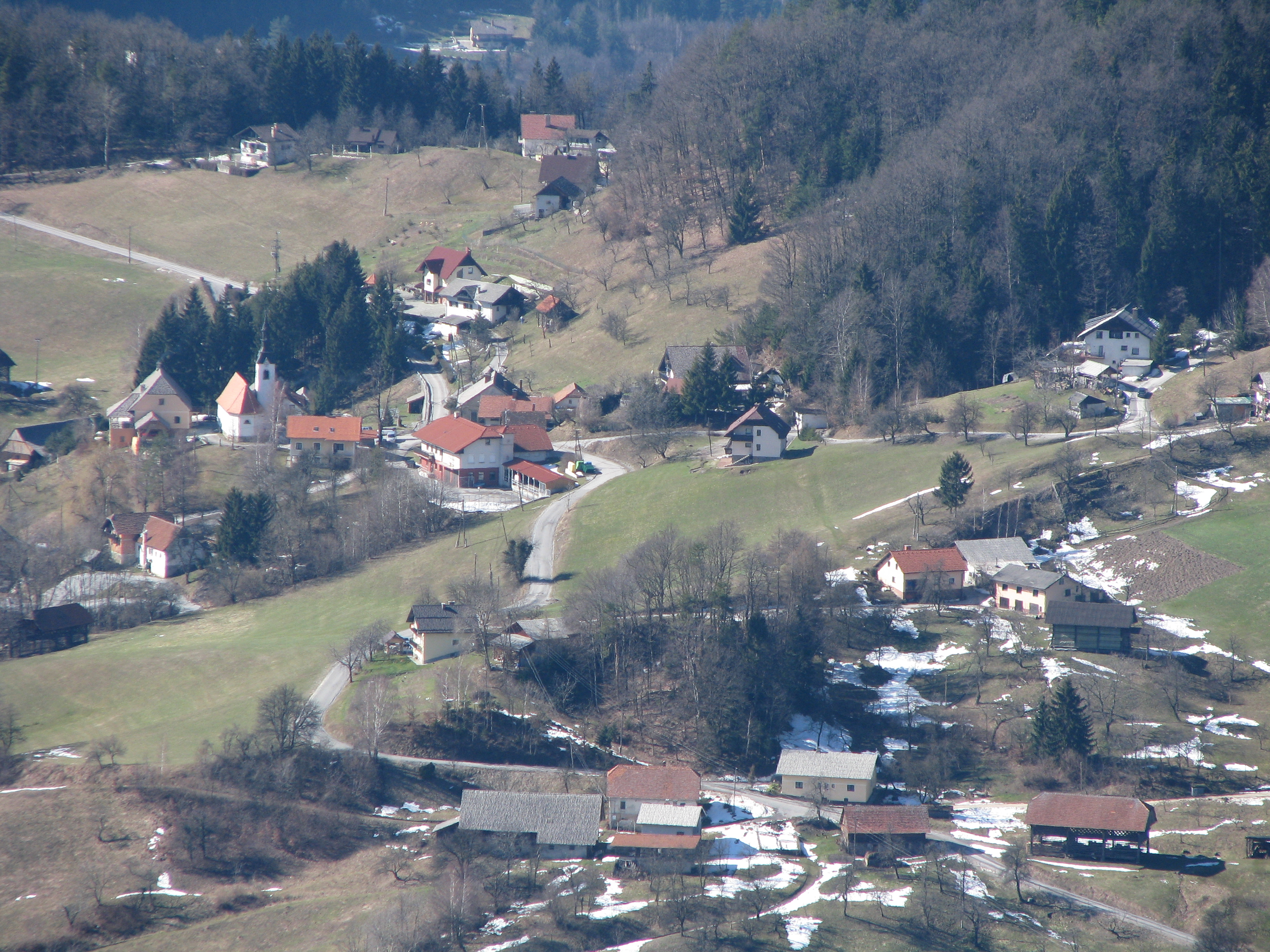 Village of Čeče, Trbovlje municipality, Slovenia, as seen from Kal (approx. 975 m)